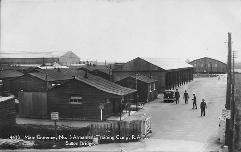 Air Ministry airfield site No. 3 Armament Training Camp, Royal Air Force, Sutton Bridge in Sutton Bridge, Lincolnshire, England, during the 1930s. View from west side airfield embankment main entrance. Photograph shows the airfield's main entrance gate and guard house, leading down towards the Mechanical Transport (MT) Shed, Bessonneau hangars and the airfield ground beyond. Visible in the far left background is the new Hinaidi type aircraft hangar built during the 1930s replacing two of the airfield's original four Bessonneau type aircraft hangars. From its establishment in September 1926, R.A.F. Practice Camp Sutton Bridge airfield site continued to be expanded; from January 1932 it was officially renamed to No. 3 Armament Training Camp Sutton Bridge, subsequently No. 3 Armament Training Station Sutton Bridge, and later simply RAF Sutton Bridge. Object location52° 45′ 35.75″ N, 0° 11′ 27.33″ E